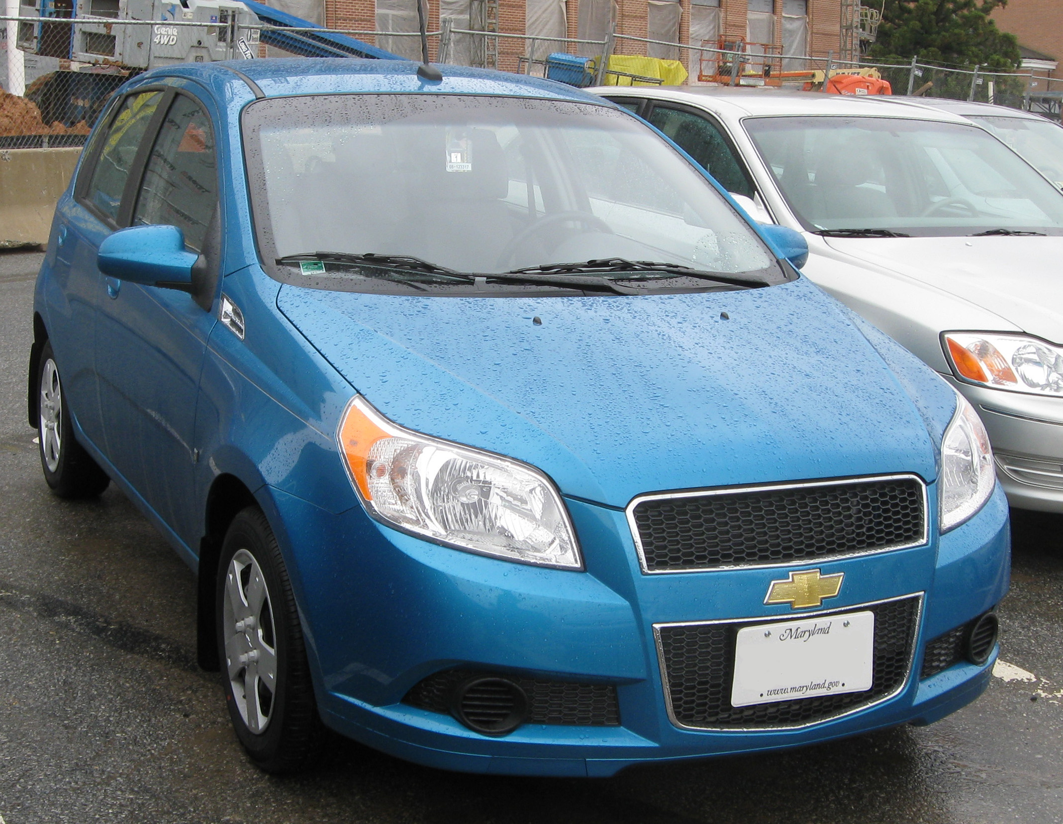 2009 Chevrolet Aveo5 photographed in College Park, Maryland, USA.